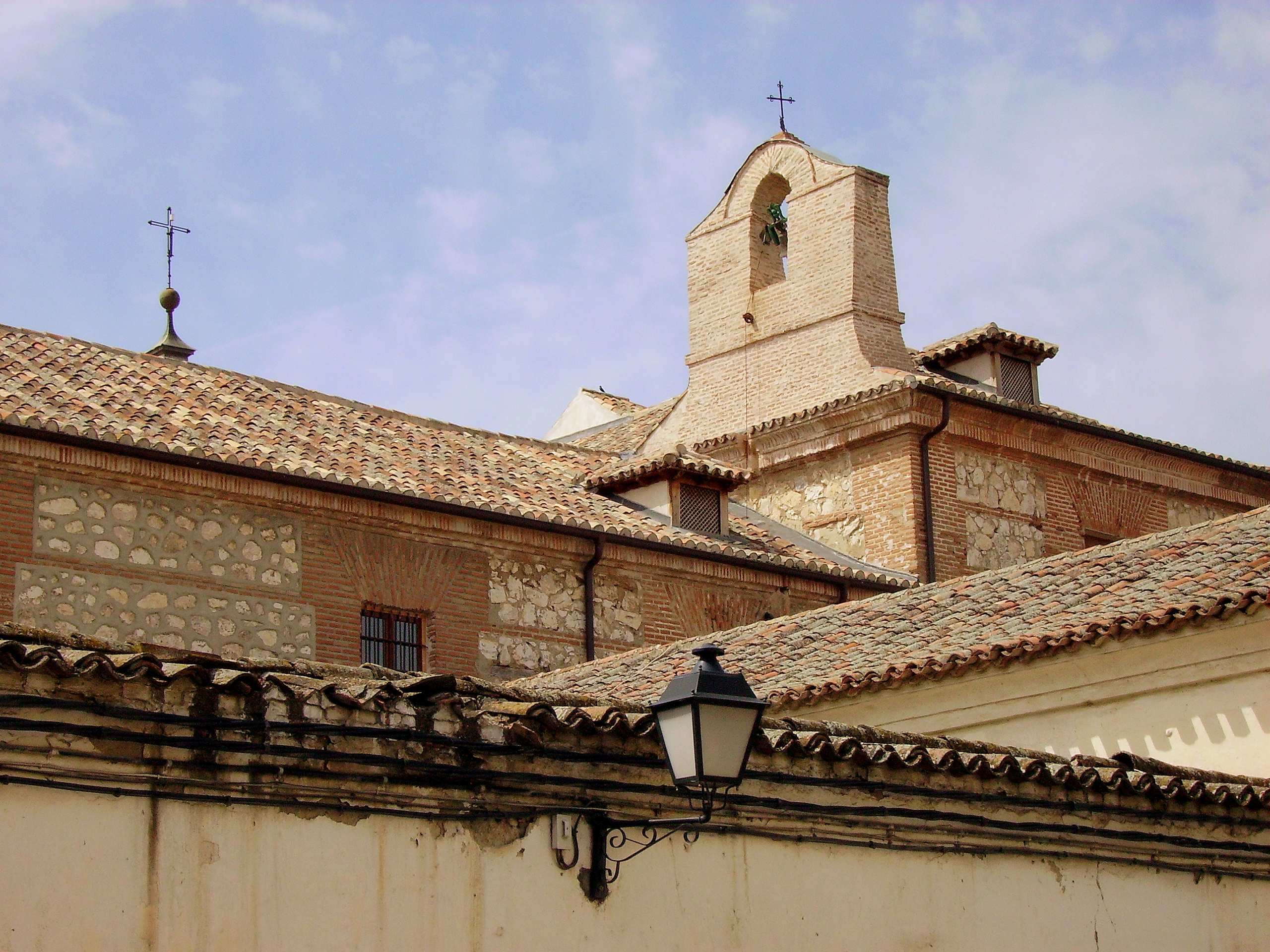 Convent in Valdemoro (Community of Madrid, Spain).